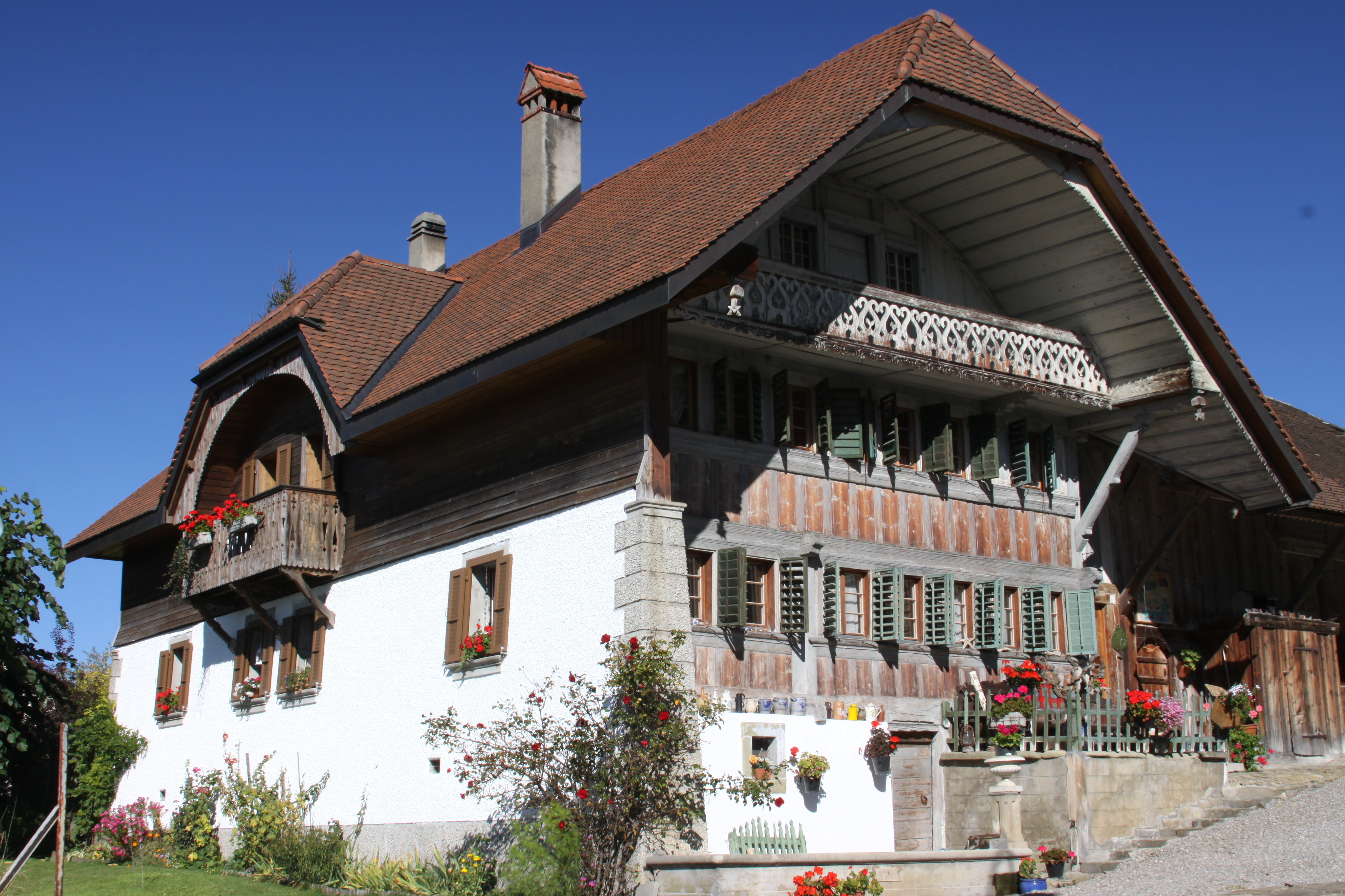 Farmhouse, Route de l’ Église 57, Praroman-Le Mouret